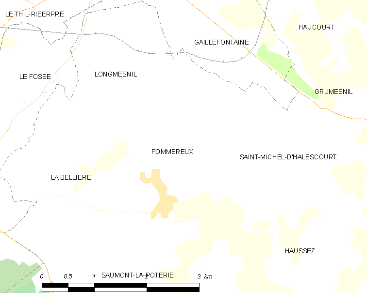 Map of French municipality Pommereux